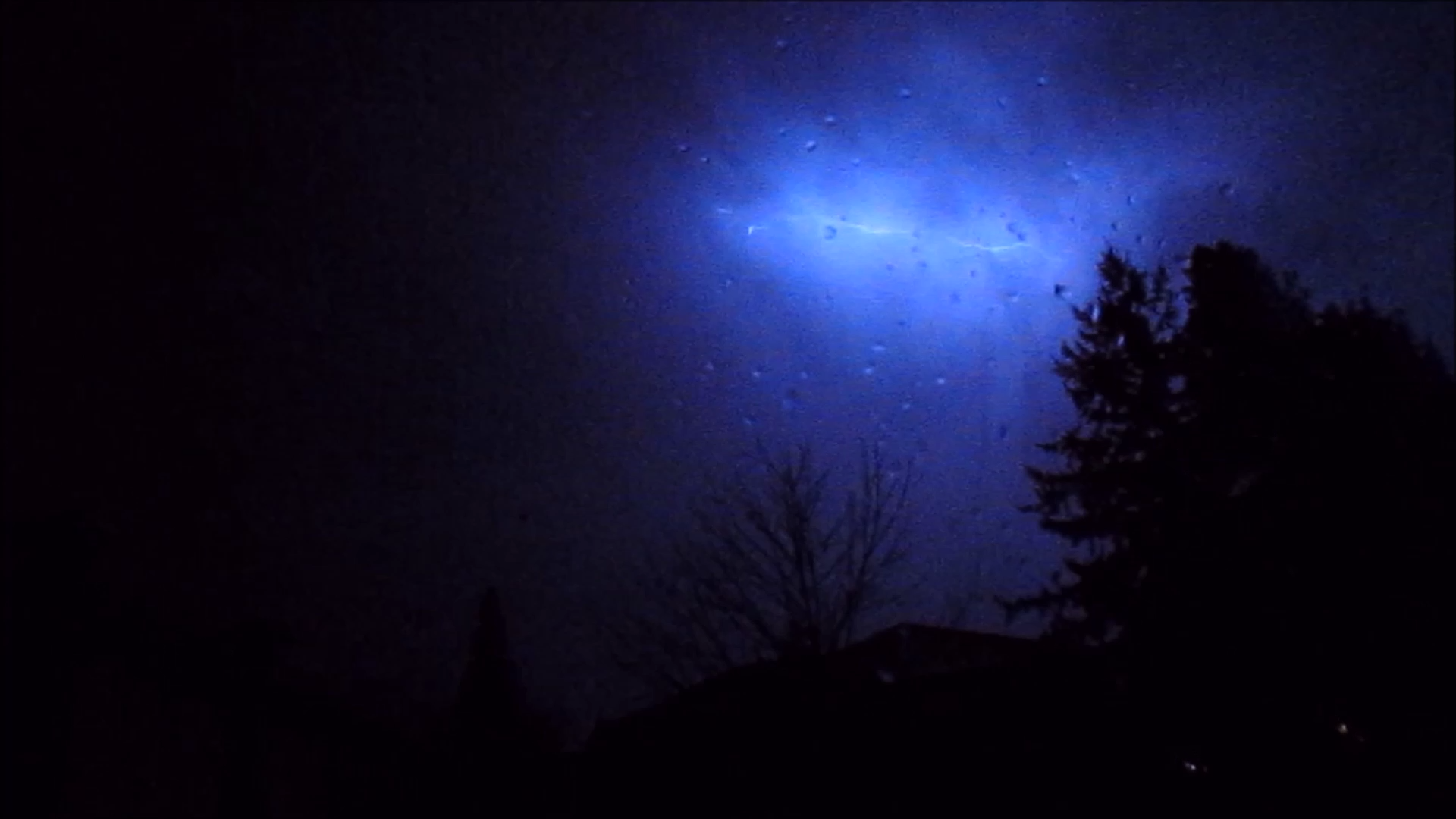 Cloud to Cloud Lightning. Credit goes to TheCascadeHiker (me).